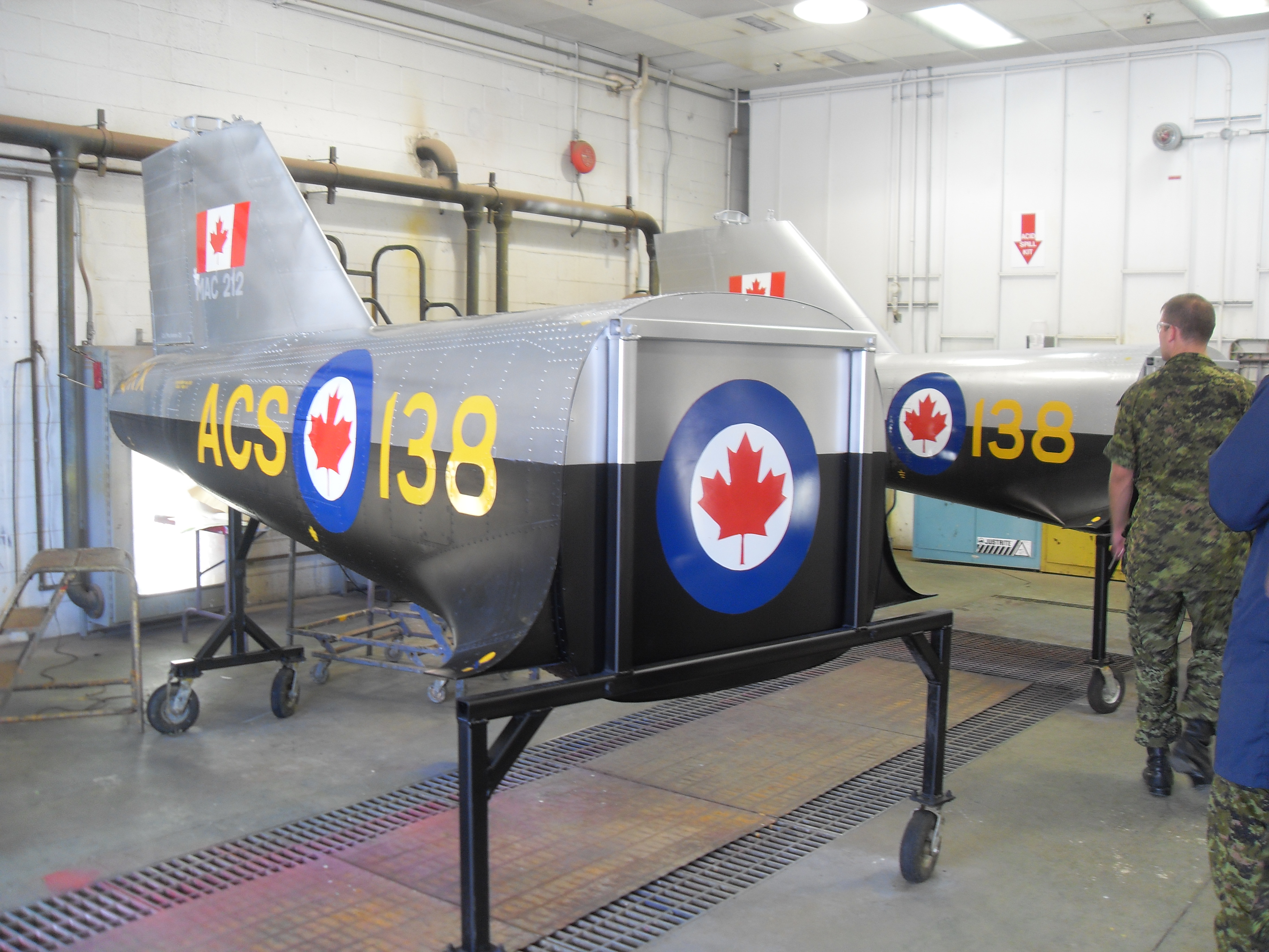 Tail Sections students of CFSATE use to learn to refinish